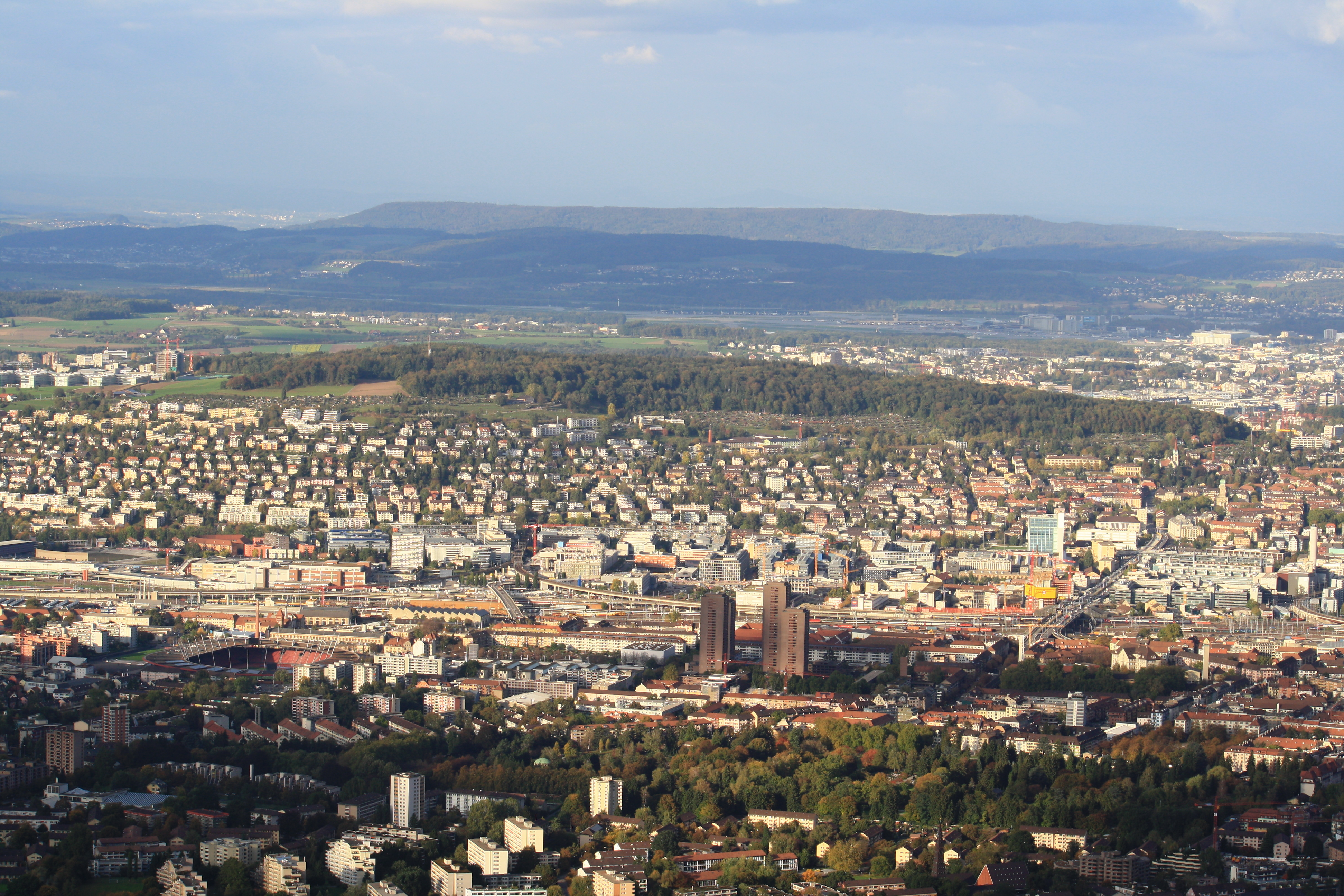 Zürich-Altstetten (in the foreground), Hard around the red Hardau buildings and Höngg quarters, and Käferberg-Waidberg, as seen from Uetliberg Aussichtsturm, Rümlang (to the left) and Kloten airport in the background.